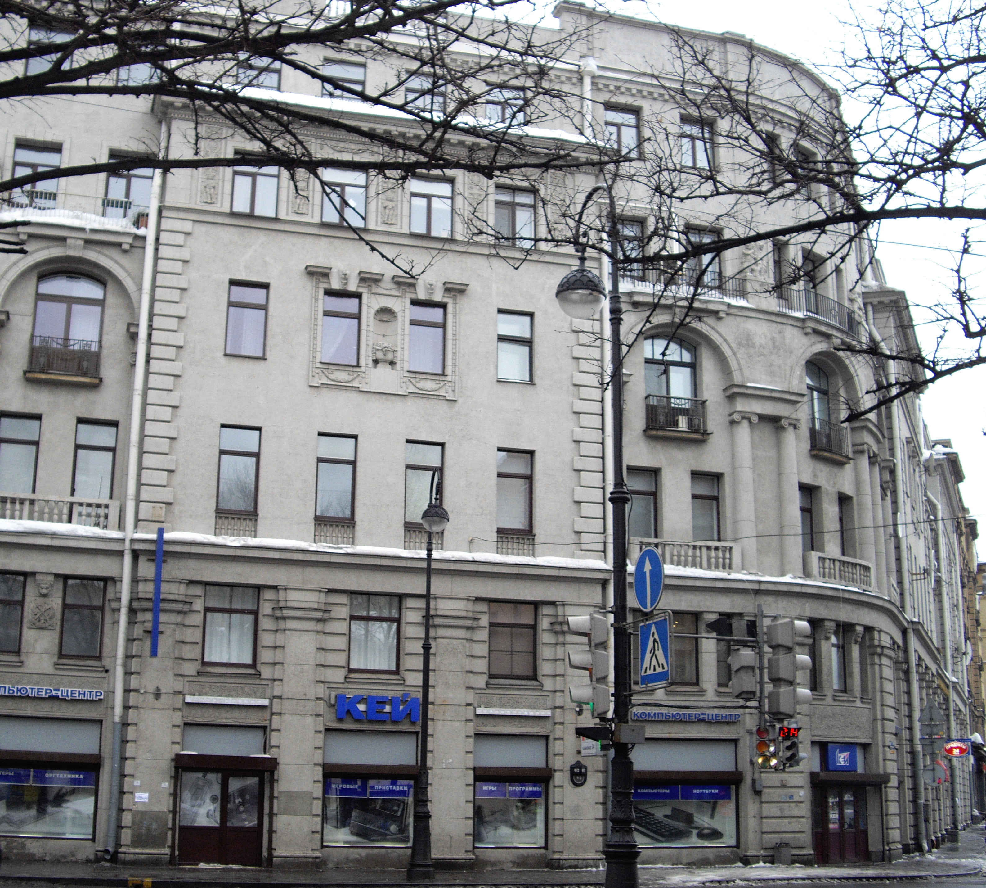 9, Kamennoostrovsky Prospekt - 2, Malaya posadskaya Street, Saint-Petersburg, Russia. Architect Marian Lyalewicz, 1911-1912.